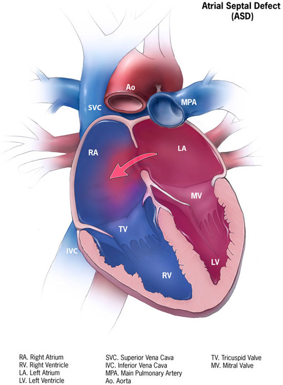 Atrial septal defect, next to a normal heart